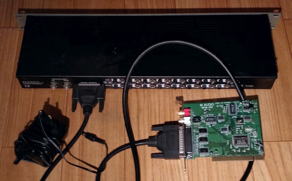 M-Audio delta 1010 Audio Interface with external AD-Converters